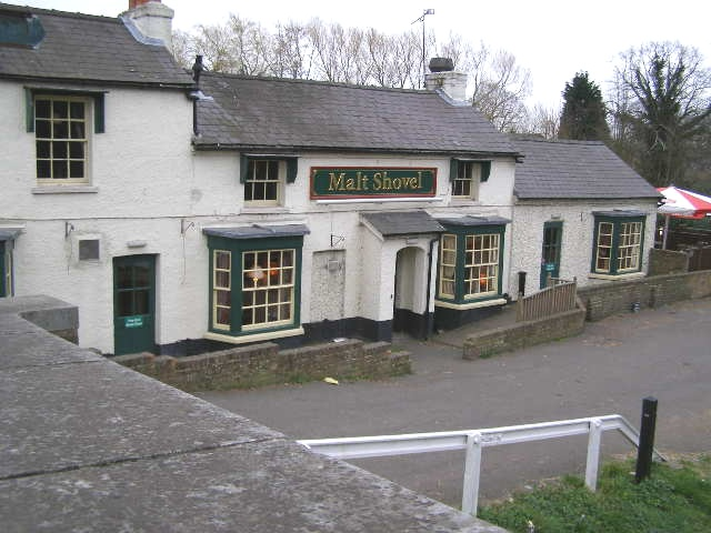 The Malt Shovel, Iver Lane, Cowley Here are some comments on it..